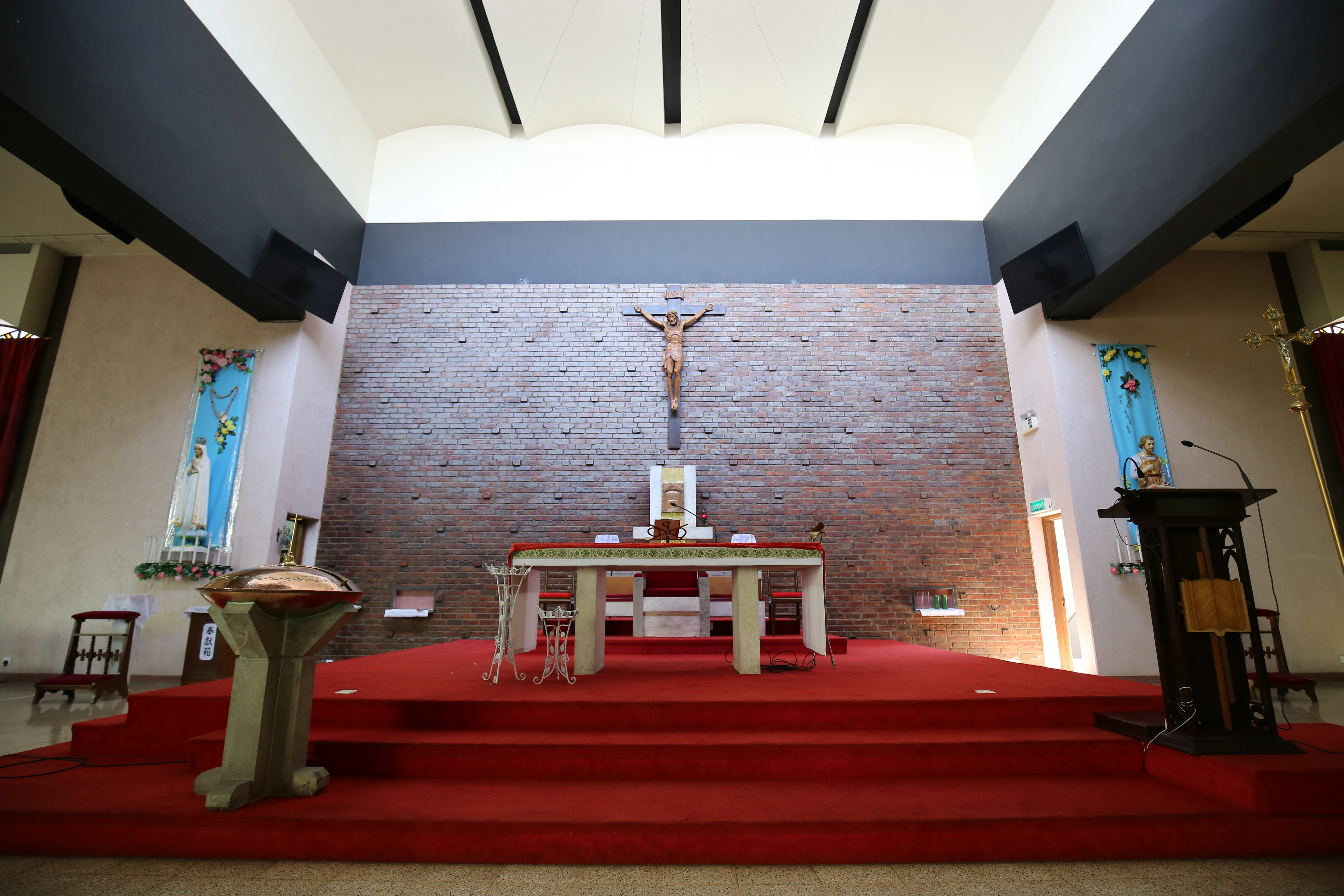 Fatima Church Macau